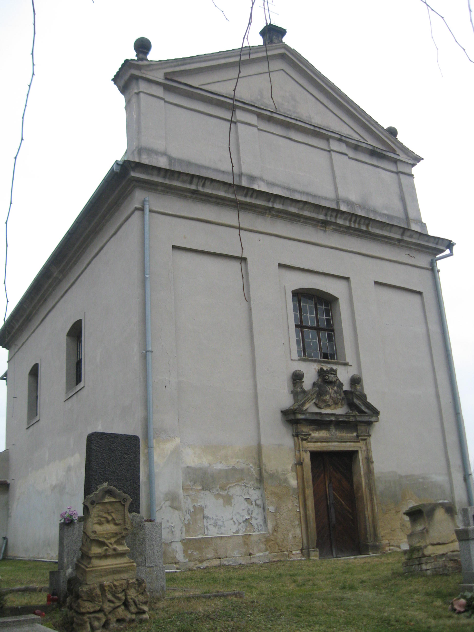 Front facade of the Church of St. Wenceslaus in Lipenec